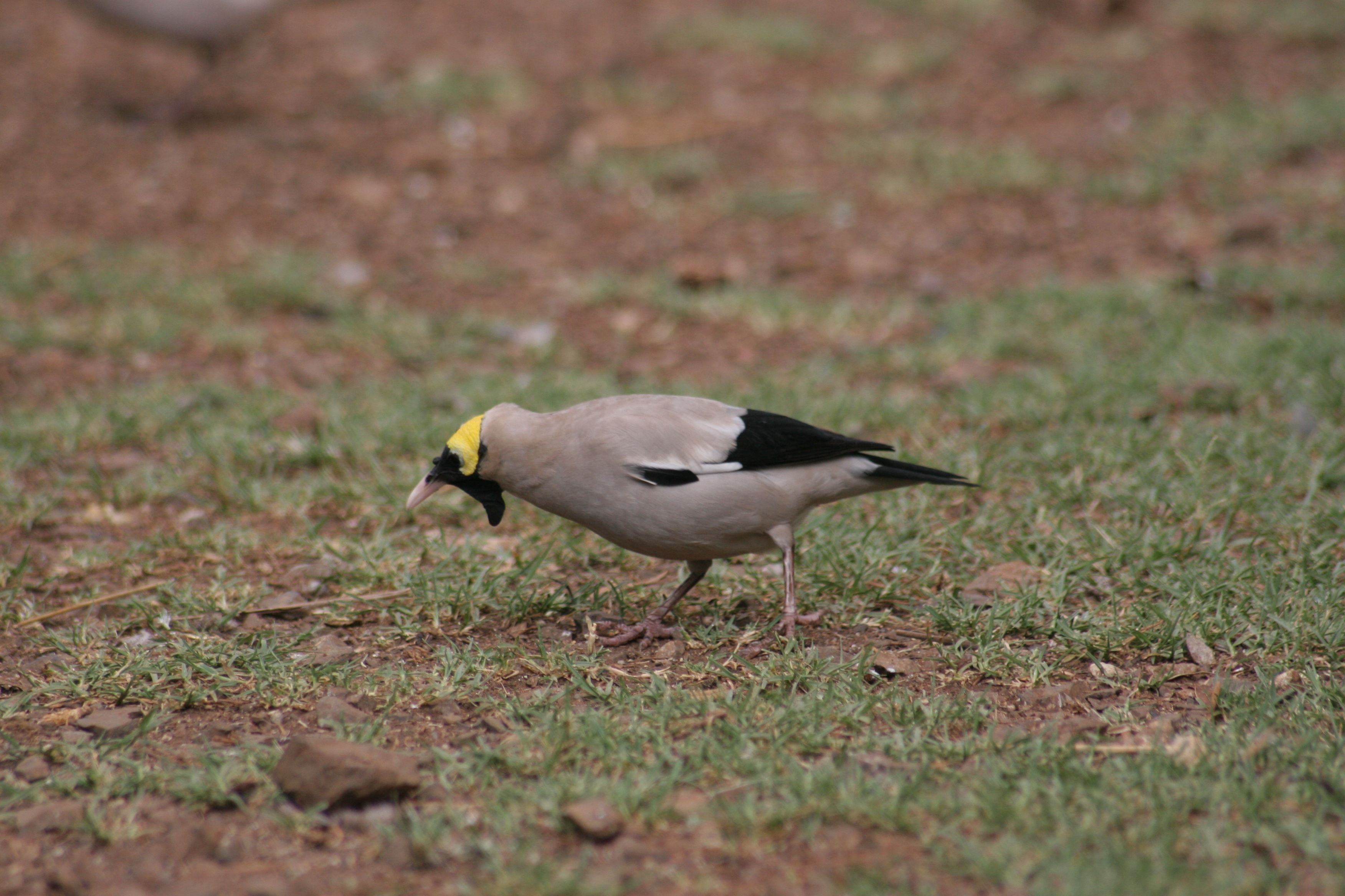 Wattled Starling Creatophora cinerea, Krugersdorp, South Africa. One of the many variety of starlings in South Africa.